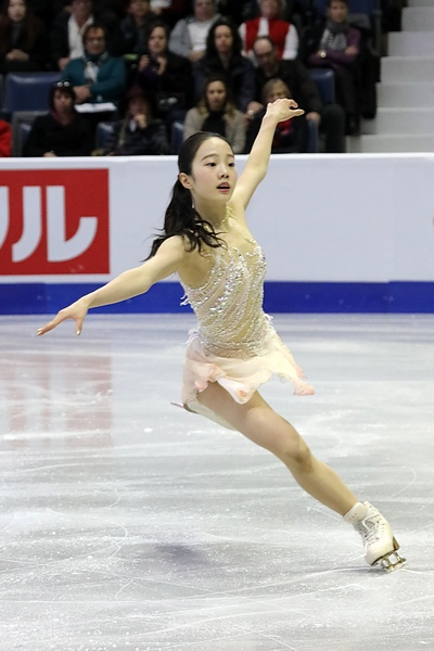 Photos – Skate Canada 2017 – Ladies (Marin HONDA JPN – 5th Place)